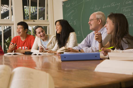 A Harkness table being used at the College Preparatory School in Oakland ca.